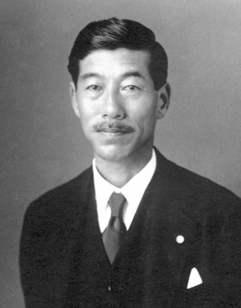 Akira Aoyama was inaugurated as Vice-Minister for Engineering Affairs, Home Ministry on May, 1934.